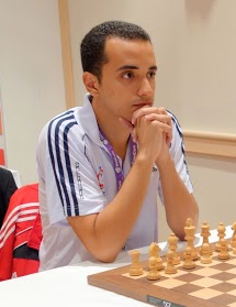 Bassem Amin at the 2013 Chess World Cup